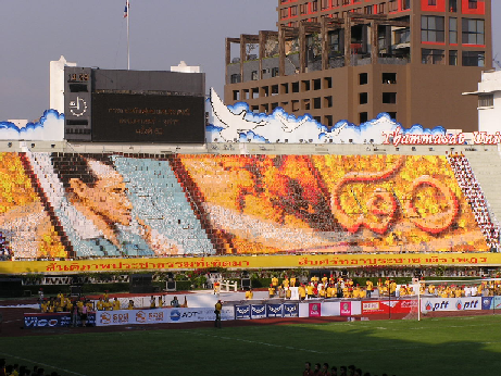 Card stunt of Thammasat University in 63rd Chula-Thammasat Traditional Football Match